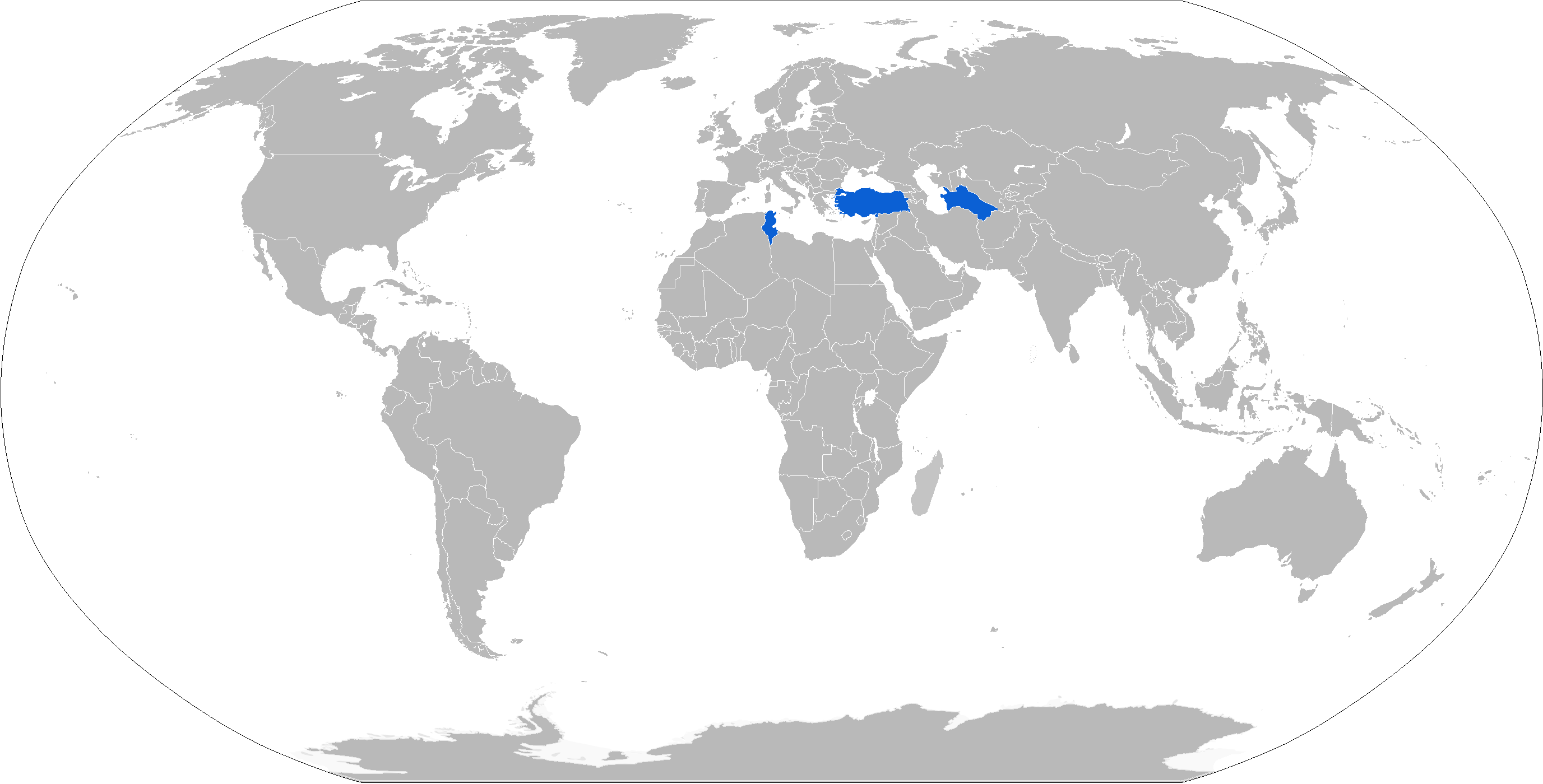 Map of Kirpi operators in blue